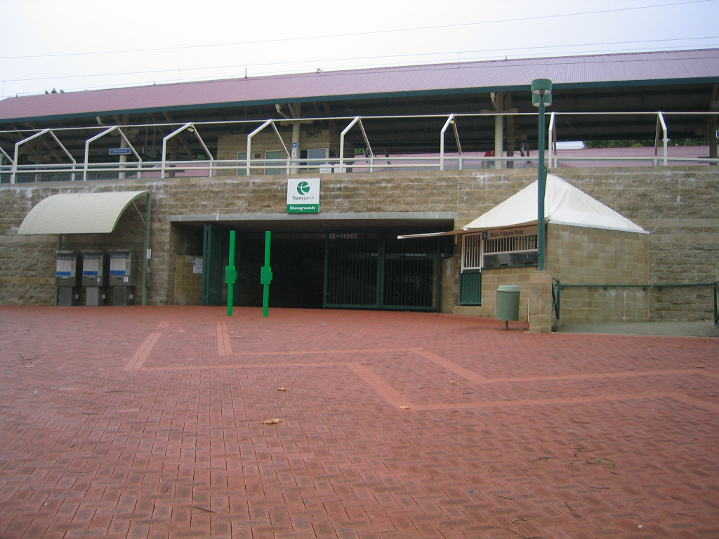 Transperth Showgrounds Train Station